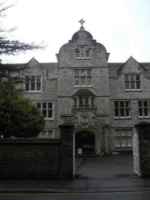 Boscombe: former Convent of the Cross This is the central entrance of the former convent, which is now used as the 952905.